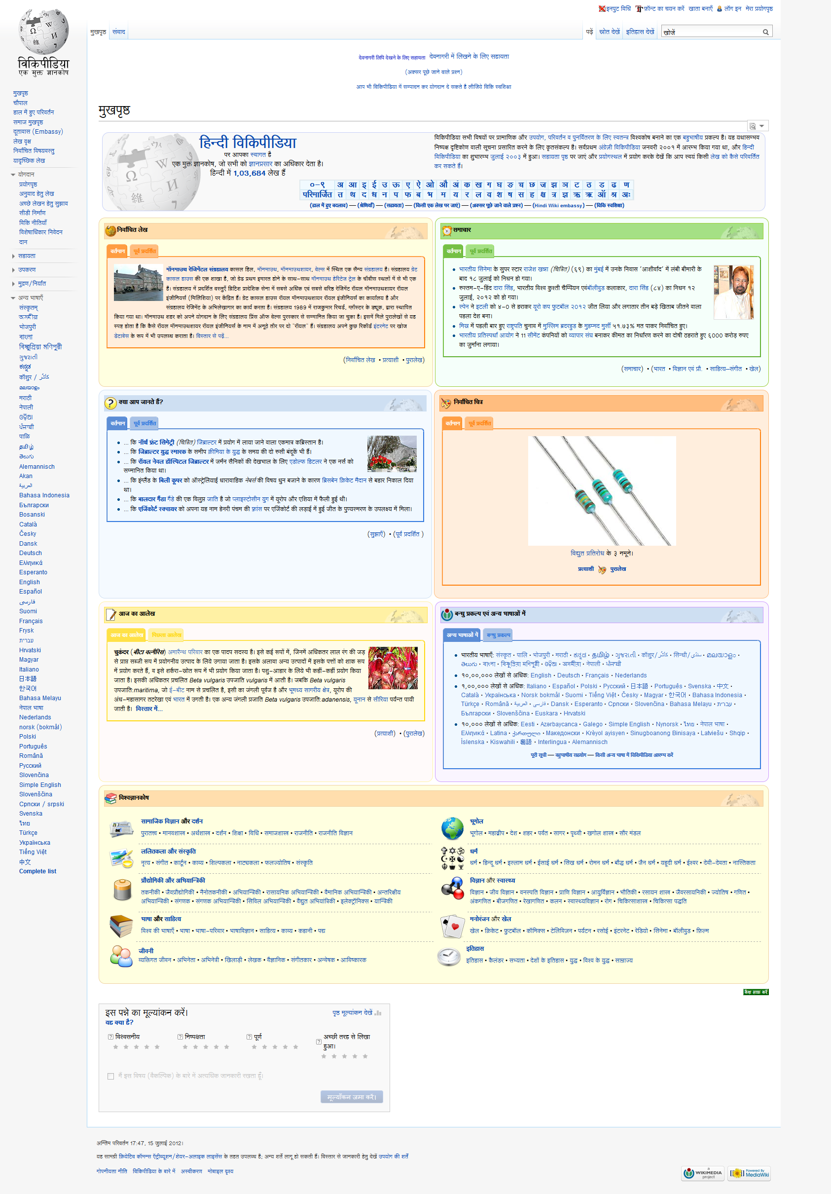 Screenshot of the Hindi Wikipedia's main page, taken on October 1st, 2012 with the FireShot add-on for Firefox